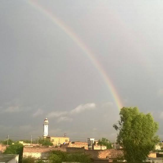 Village langah image